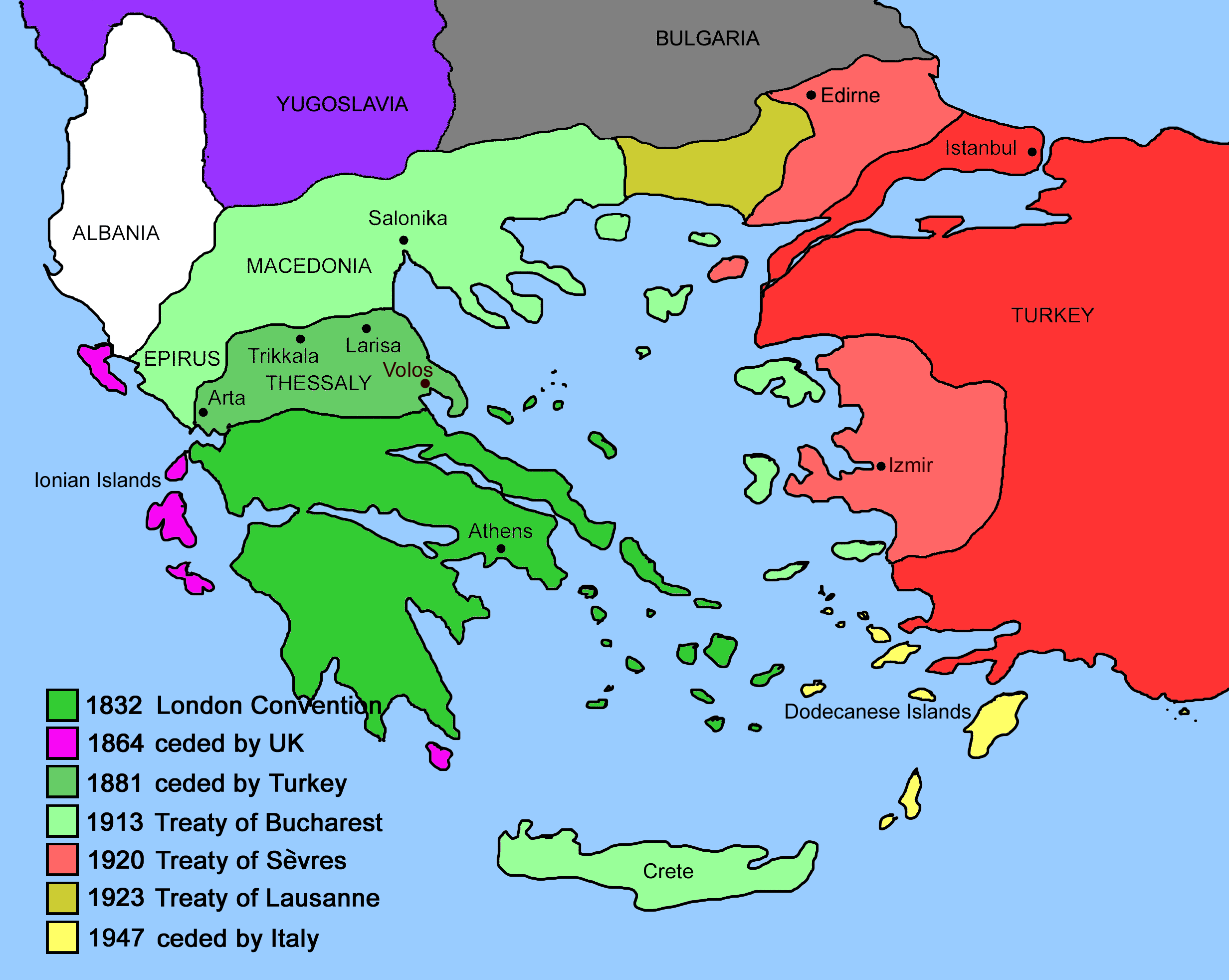 Territorial expansion of Greece (1832–1947).